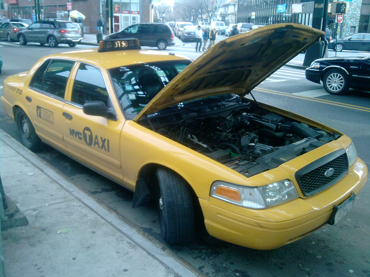 A broken yellow-cab taxi in New York City, the state of New York.